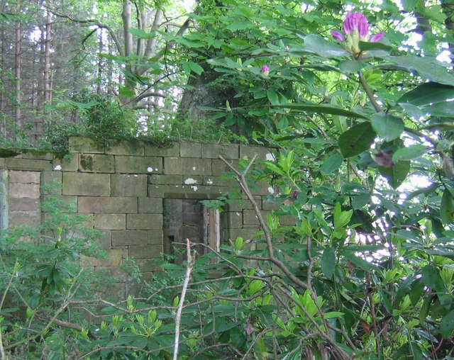 The ruin of Trinity Chapel, in the west of Brackenfield civil parish, Derbyshire, England